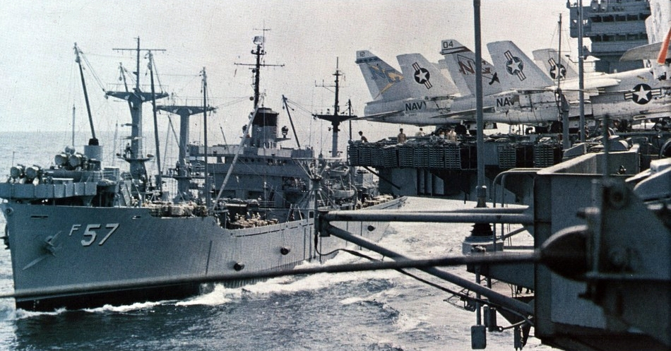 The U.S. Navy stores ship USS Regulus (AF-57) replenishing the aircraft carrier USS America (CVA-66). The carrier, with assigned Carrier Air Wing 9 (CVW-9), was deployed to Vietnam from 10 April to 21 December 1970. Note the LTV A-7E Corsair II fighters from attack squadrons VA-146 Blue Diamonds and VA-147 Argonauts on deck.